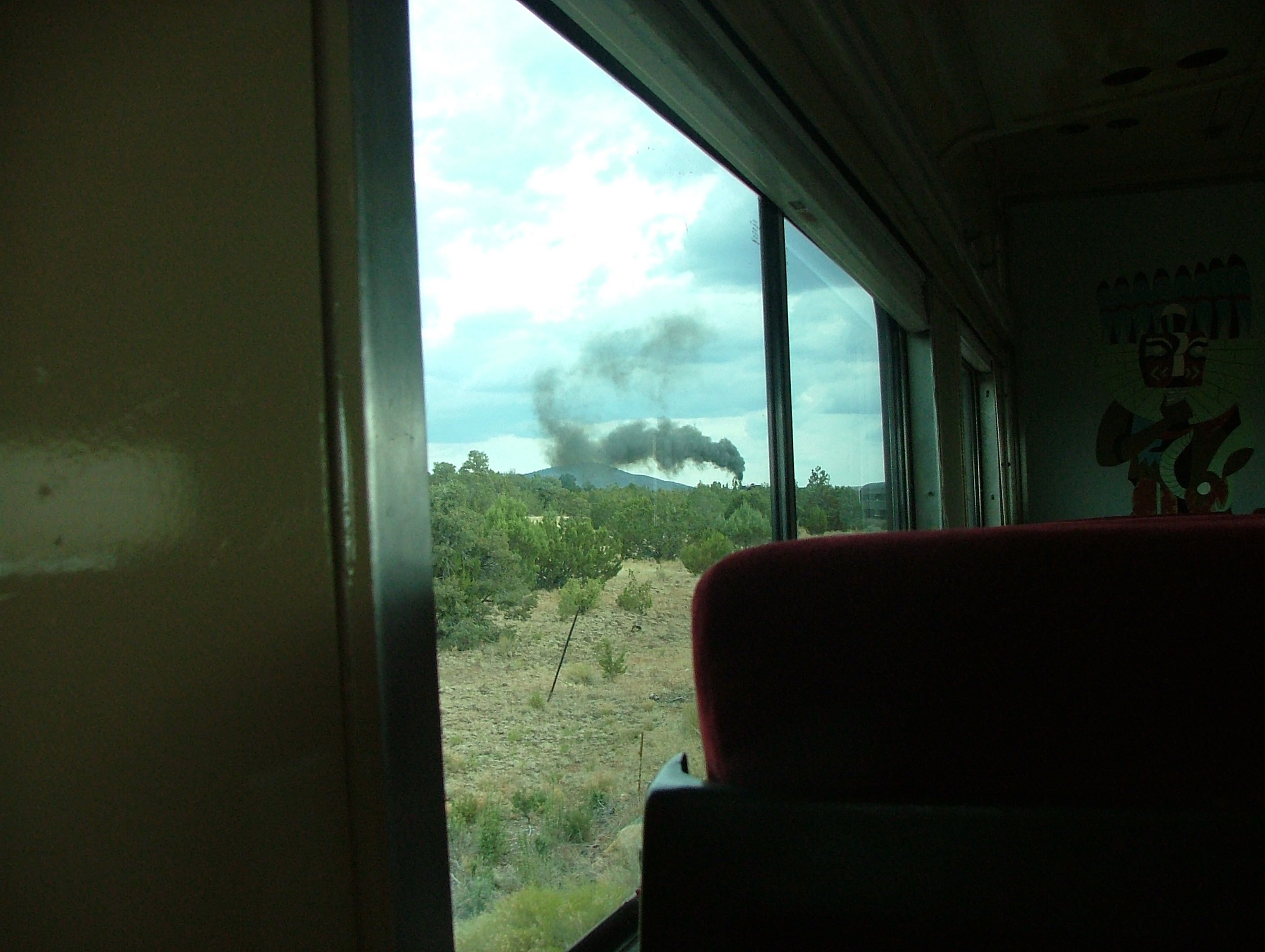 From from inside the Grand Canyon Railway line. Steam uo front.